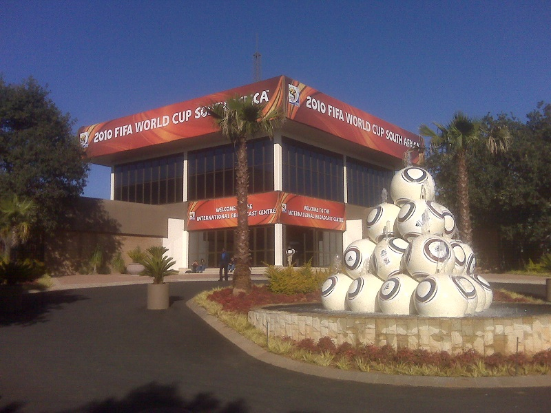 Picture of the entrance of the IBC at the 2010 FIFA World Cup South Africa